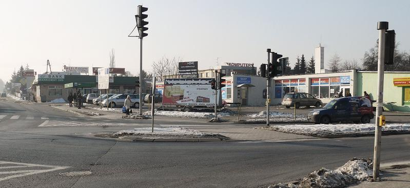 Kwiatowe - District of Poznan.